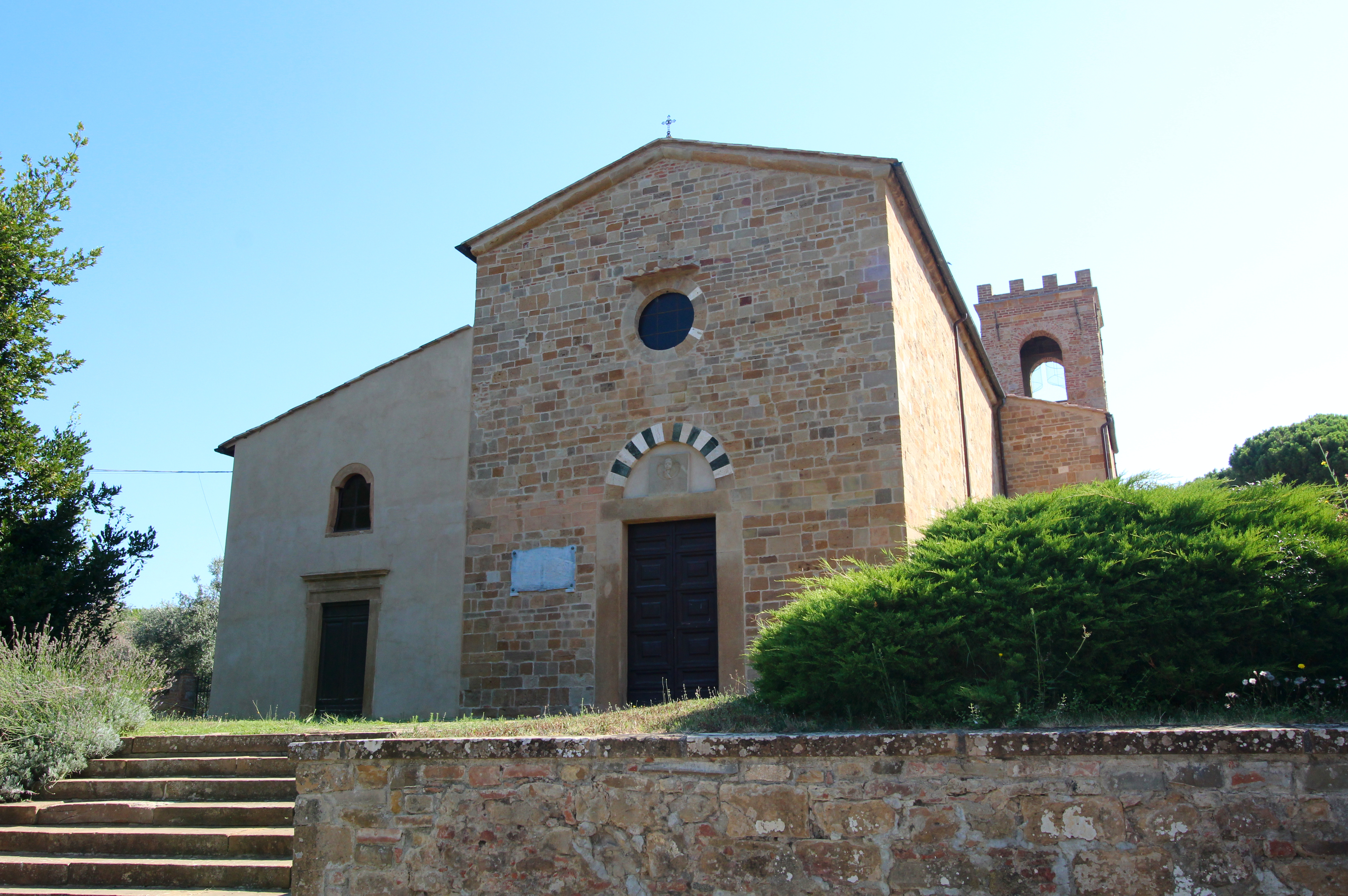 Church San Floriano, Castelfalfi, Montaione, Metropolitan City of Florence, Tuscany, Italy